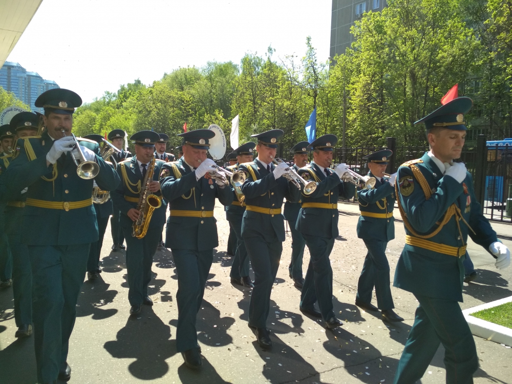 Оркестр МЧС России В преддверии Дня Победы в МЧС России чествовали ветеранов